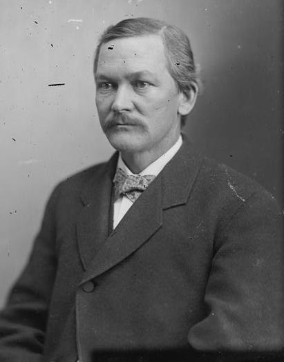 Townshend, Hon. R. W. of Ill.